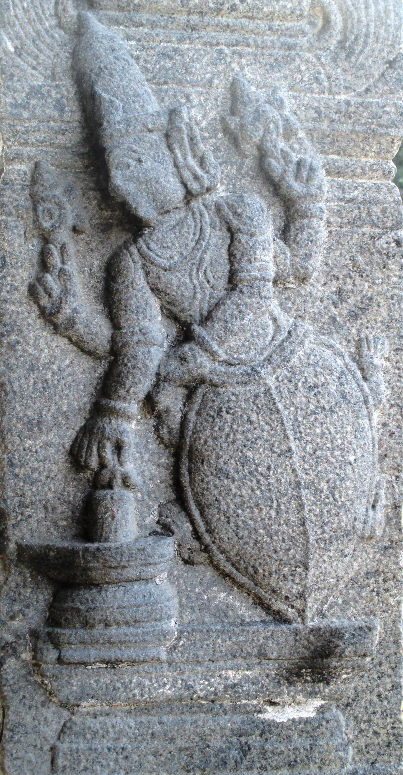 Kachabeswarar temple, Thirukachur